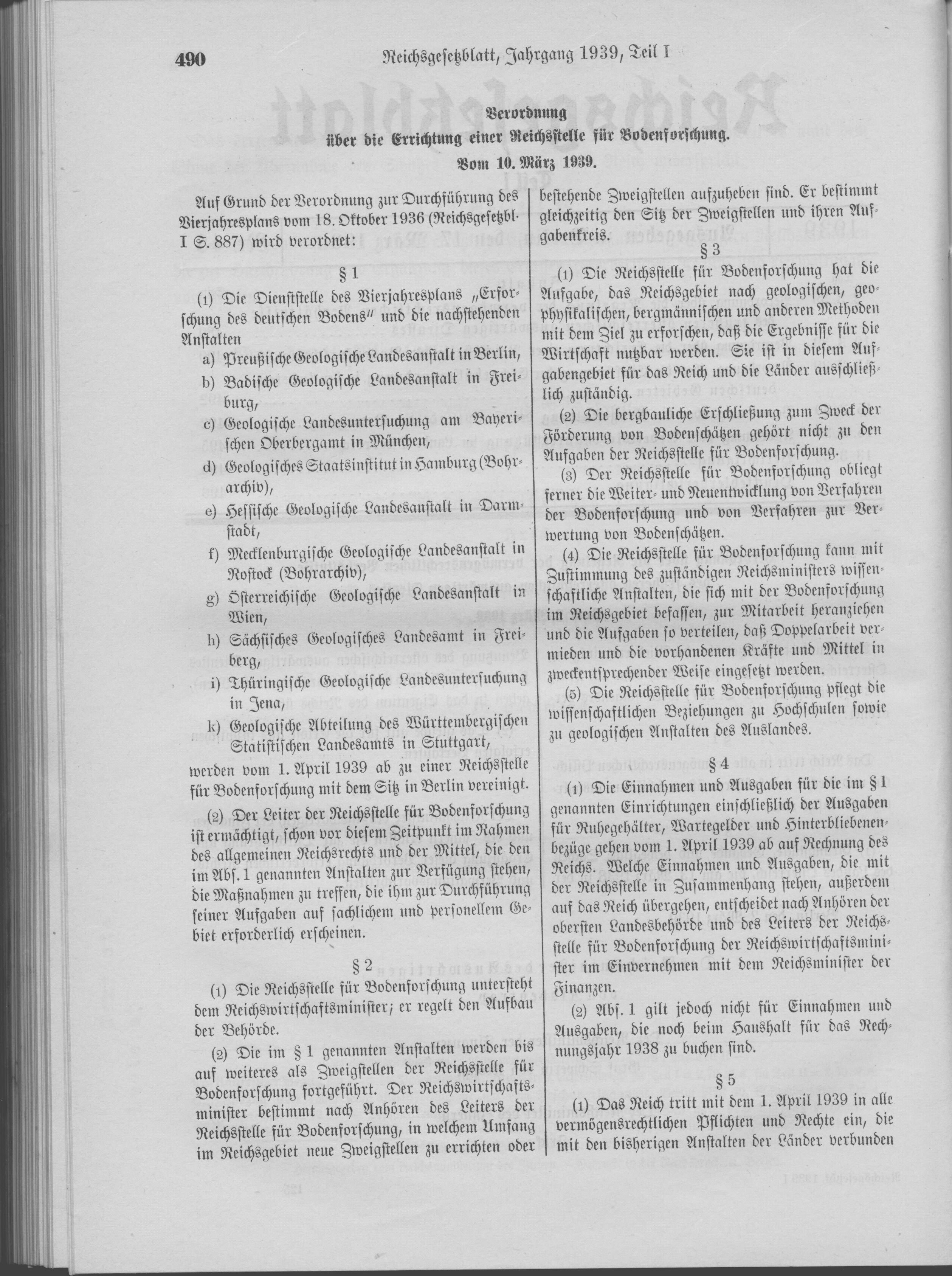 Scan from the Imperial Law Gazette of Germany, 1939, part 1